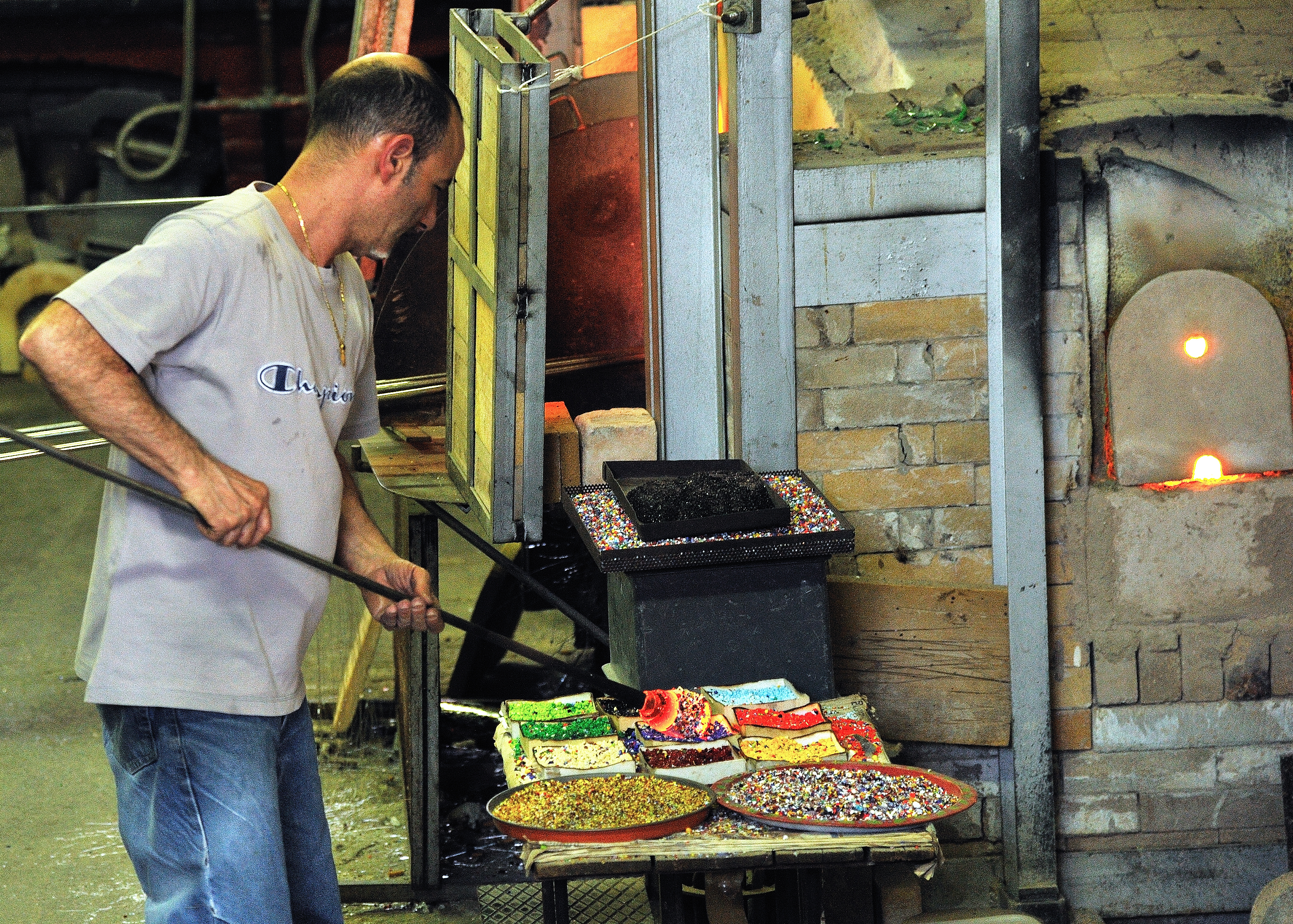 A worker at a Murano glass factory demonstrates how the colours are added to the glass vase.